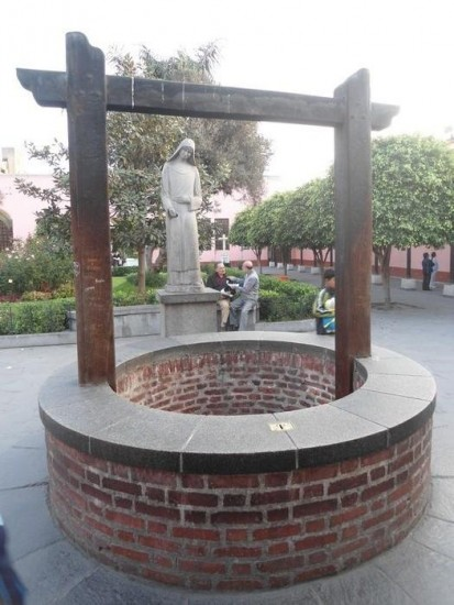 Waterhole in the Church where pilgrims throw letters down in memory of St. Rose